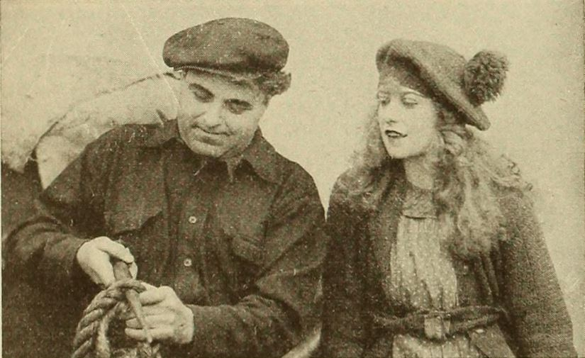 Still with William Farnum and Jackie Saunders in the lost American drama film The Scuttlers (1920), on page 64 of the March 1921 Photoplay magazine.